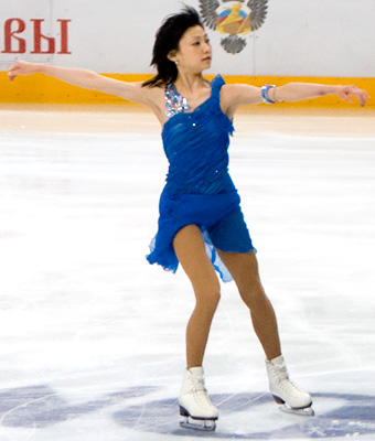 2010 Cup of Russia, free skating.